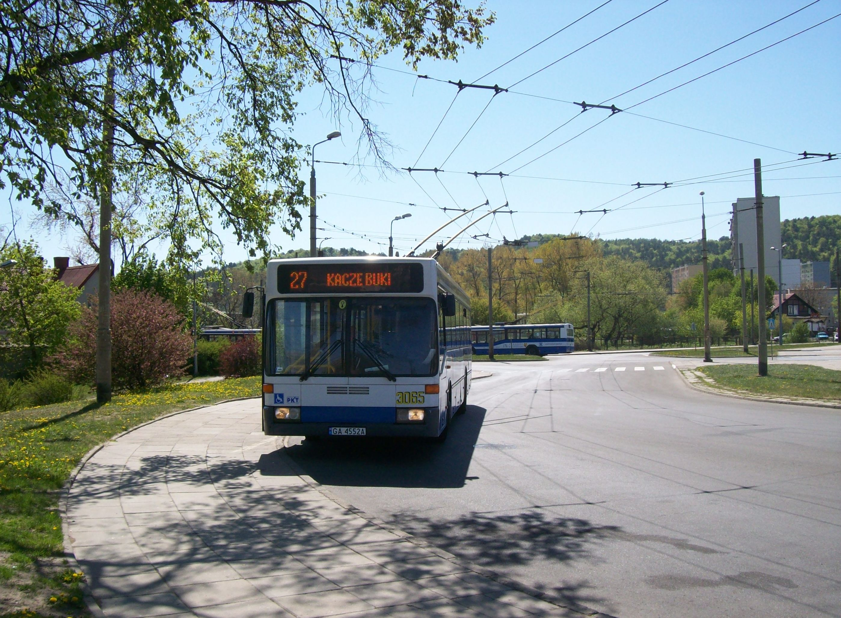 Mercedes-Benz O405NE trolleybus (#3065) in Gdynia, Poland. Built 1994.